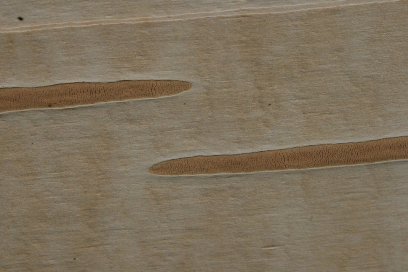 Betula utilis: Lenticells